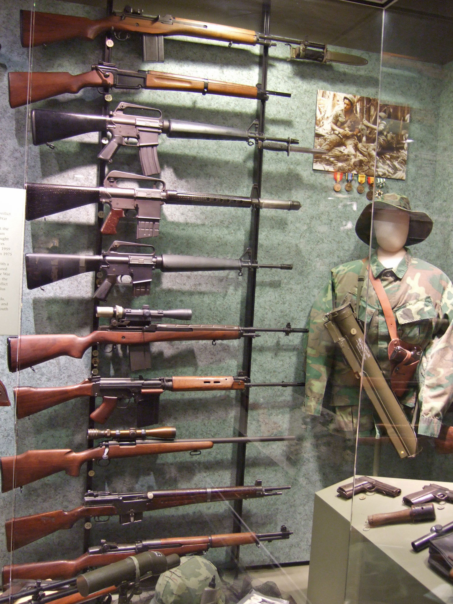 Vietnam-era firearms. From top. M14 (USA), MAS36 (French), M16 (USA), AR-10 (USA), M16 (USA), M21 (USA), FN FAL (Belgium), Remington 700 (USA), MAS49 (French), M1 Garand (USA)